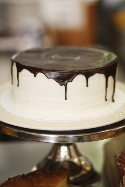 Black and white cake, made at the Clinton Street Baking Co.